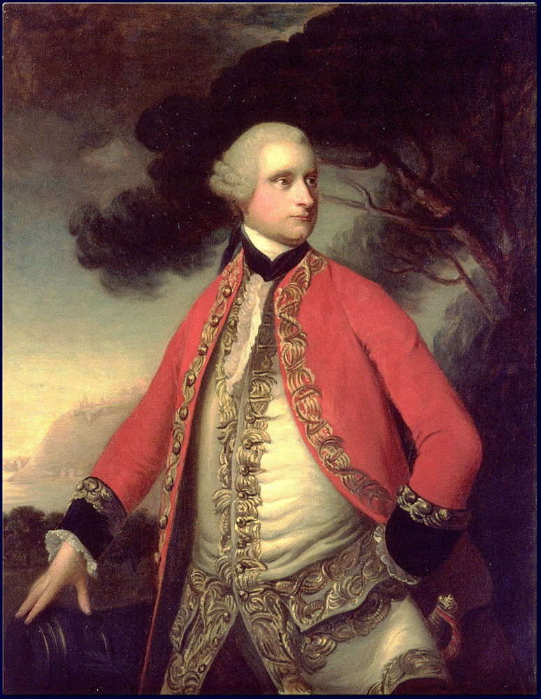 James Murray, governor of British North America.